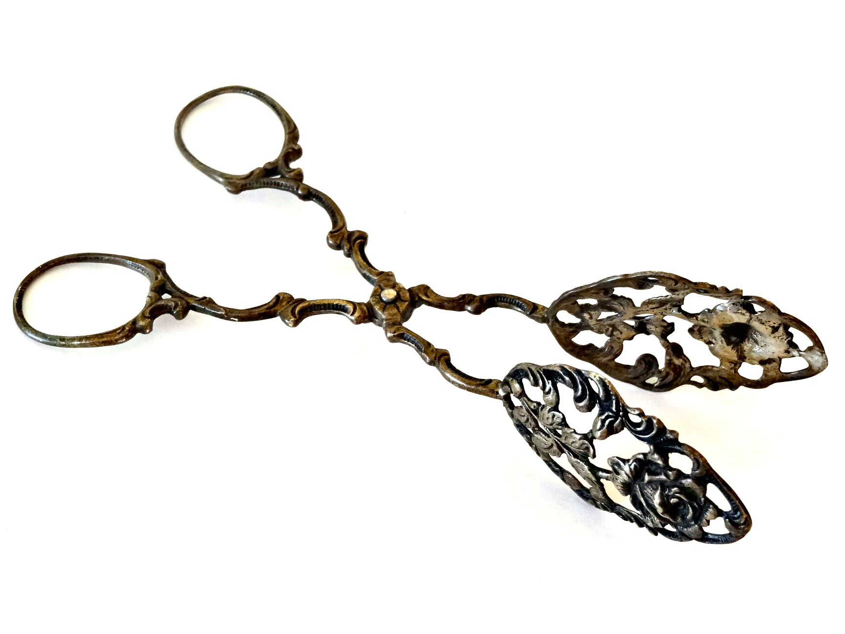 sugar tongs